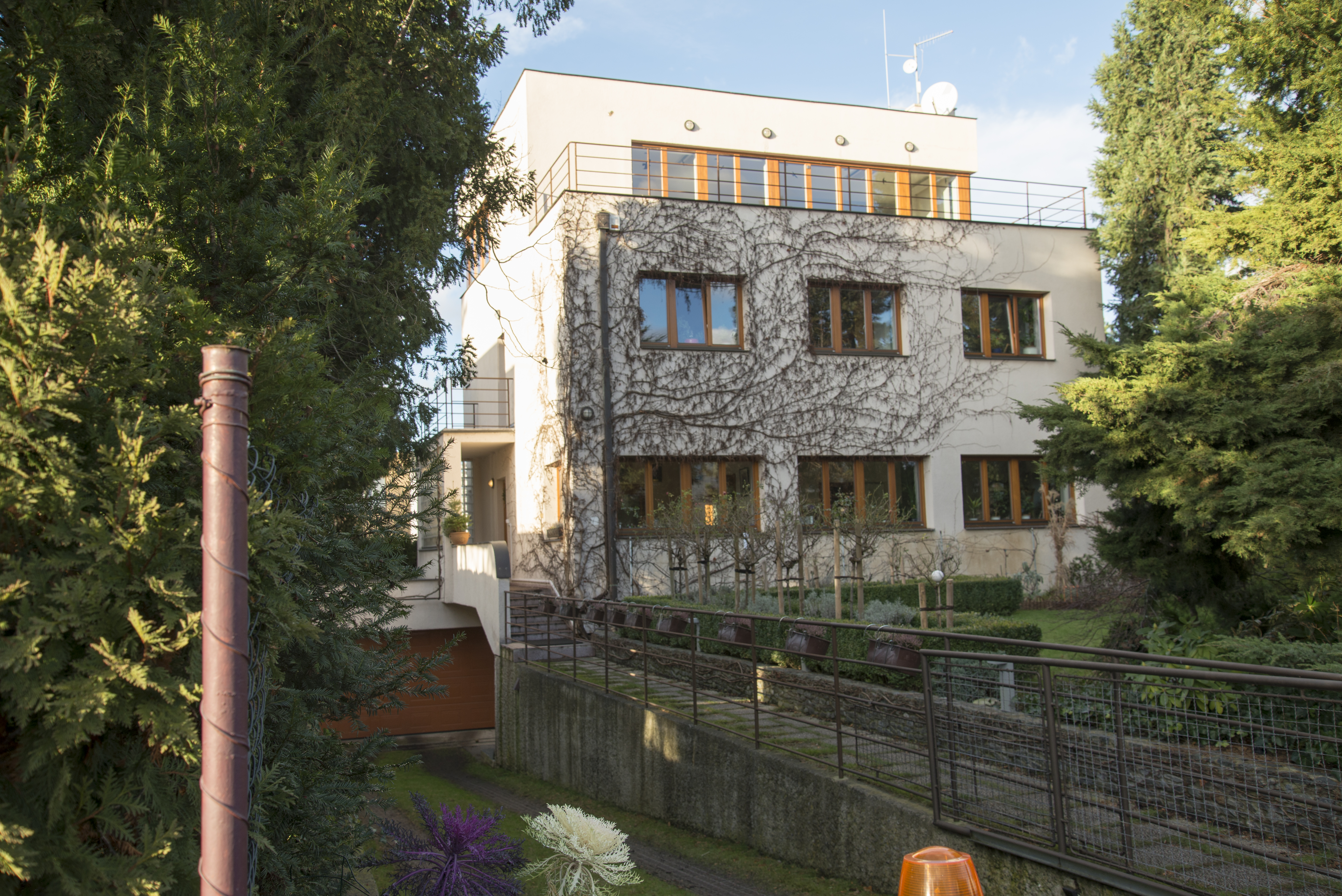 Osada Baba (Baba Functionalism colony in Prague) - House Řezáč